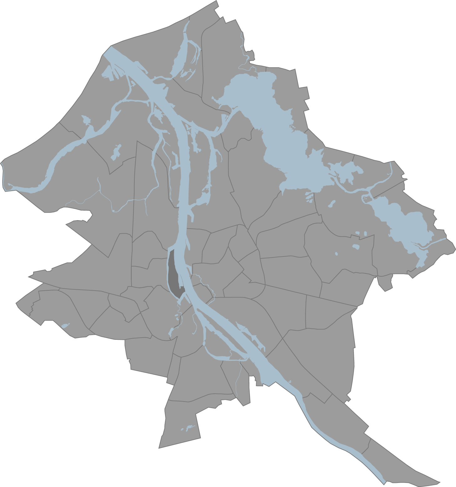 A map of Riga, Latvia with the eponymous commune highlighted